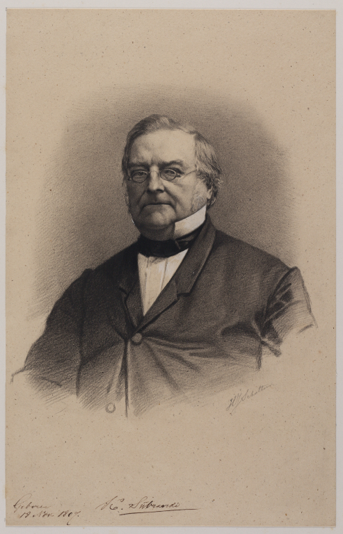 Hendrik Jacobus Scholten (1824-1907), Portrait of Klaas Sybrandi (1807-1872). Drawing; 335 x 214 mm. Collection Teylers Museum, Haarlem.